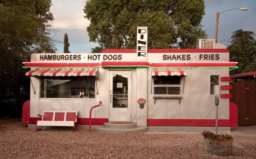 (1 in a multiple picture set) Rt. 66 passed right through Valentine, AZ, which made it a bustling town. Today there is little left, but one of the most intersting things is this old diner, now closed. These diners were built in Michigan and shipped to the buyer's site. Many of them set along the Mother Road, but this is one of the few which remain.